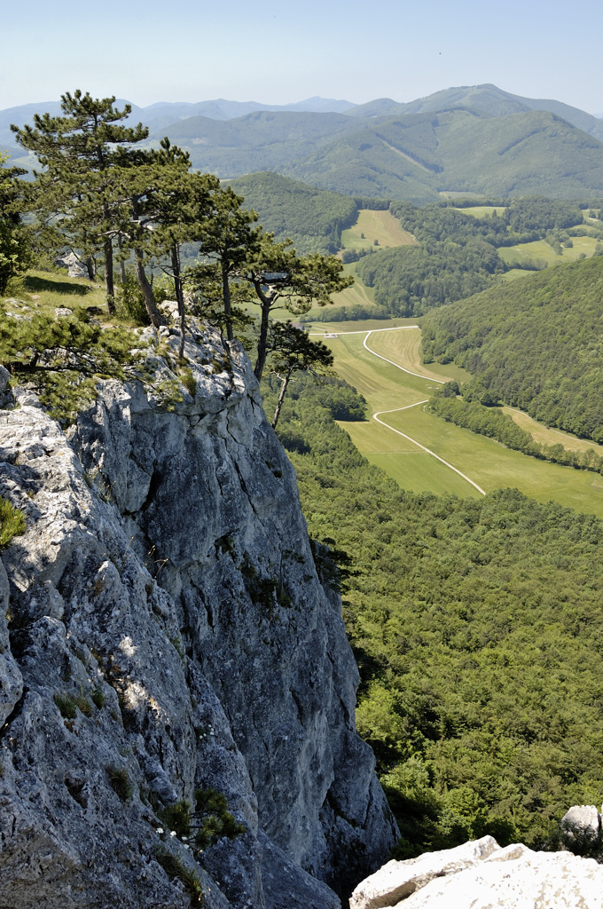 View from Peilstein